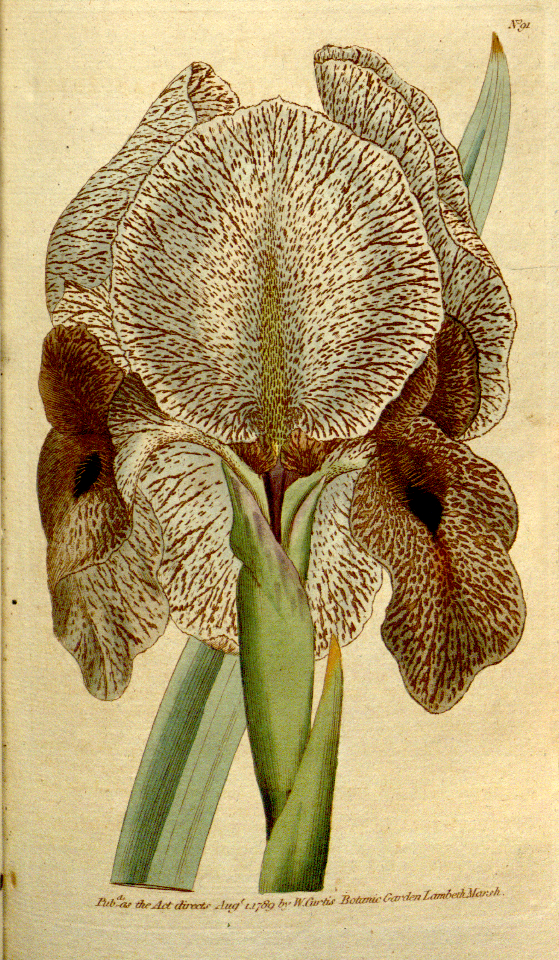 This is a plate from The Botanical Magazine, Volume 3.